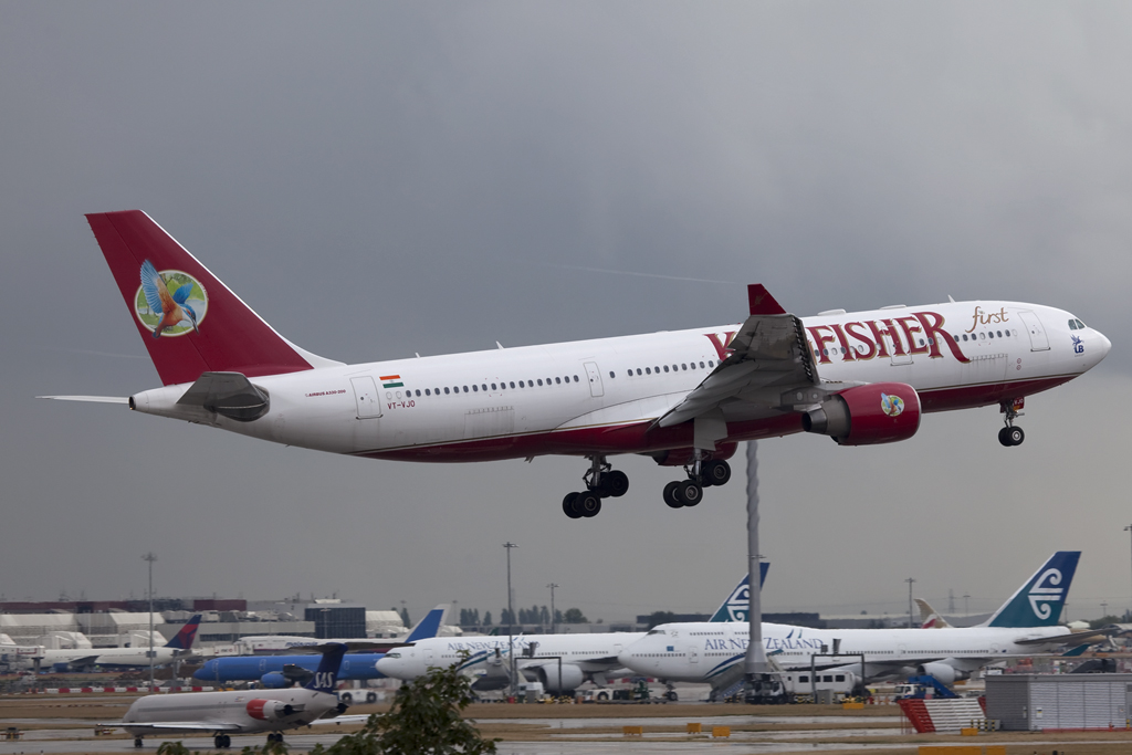 VT-VJO A330 King Fisher